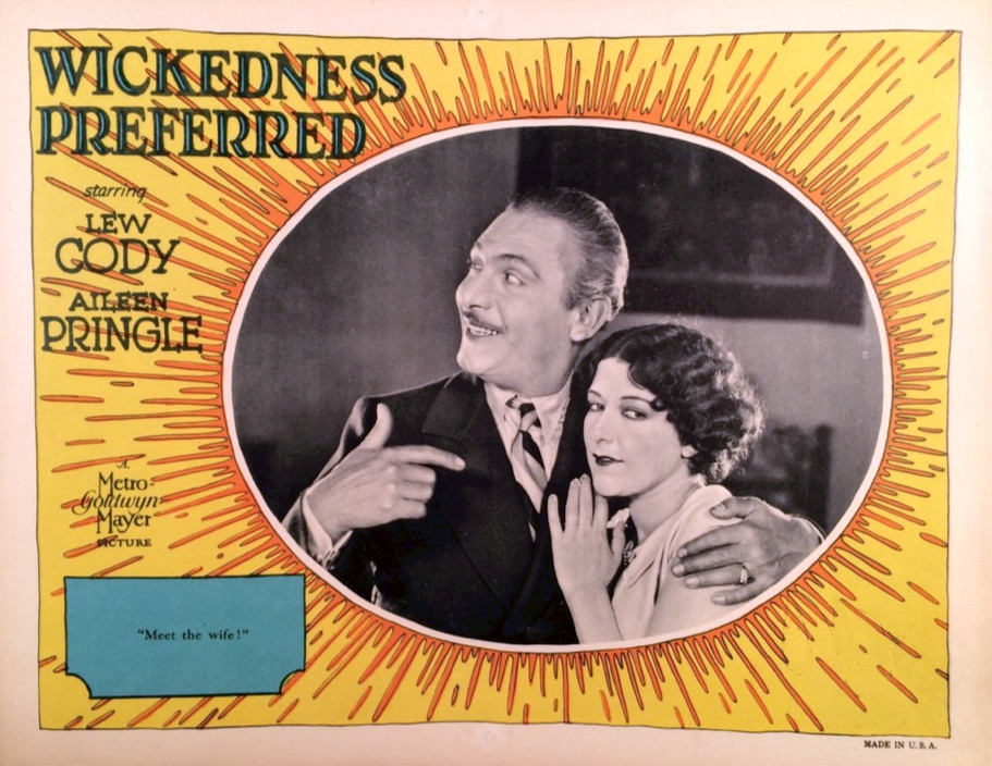 Lobby card for the American comedy film Wickedness Preferred (1928). There are no copyright marks on the item. At lower right is Made in USA.